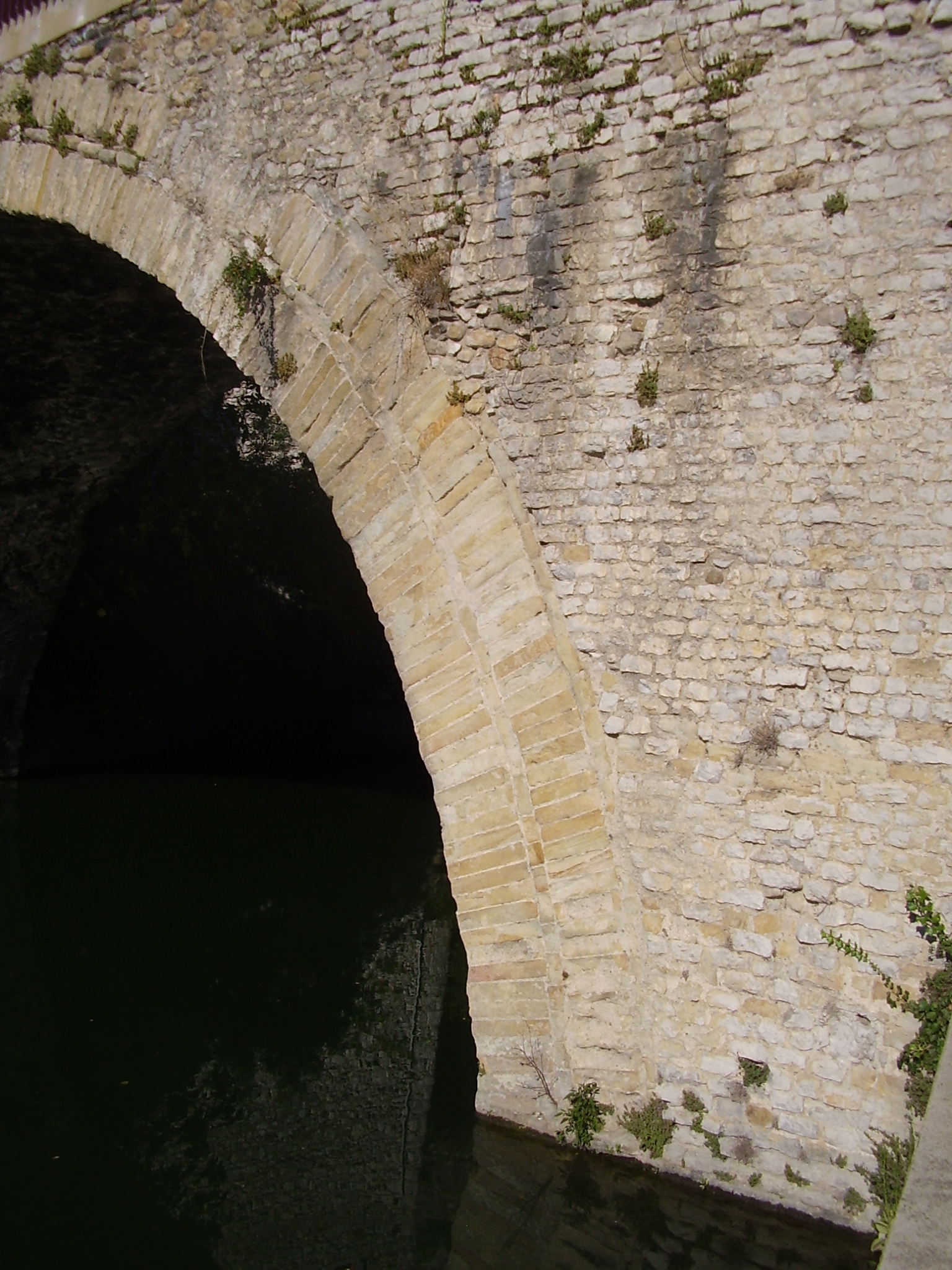 Stones of the roman bridge on the river Ouvèze at Le Pouzin